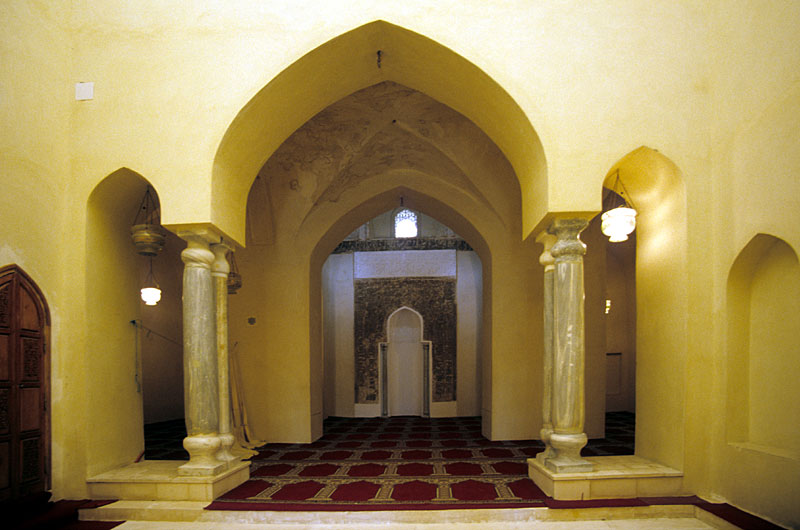 Inside the Giyushi Mosque at the west side of the Moqattam hill, Cairo, Egypt